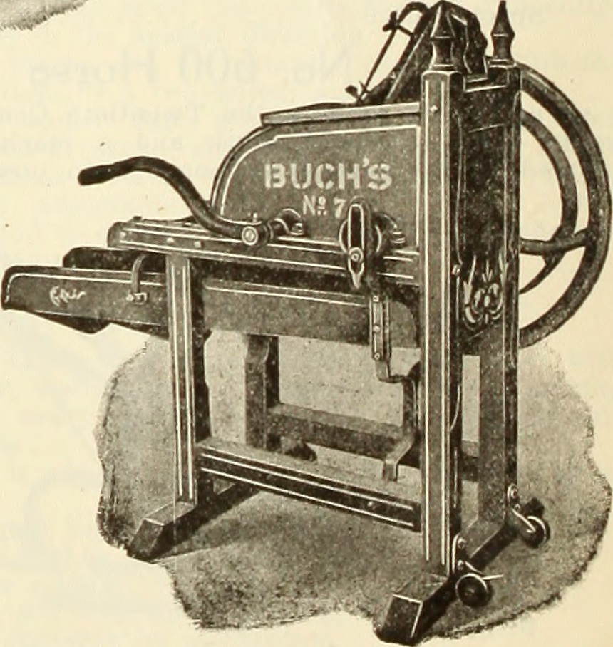 An image of a corn sheller taken from a 1912 Buch catalogue